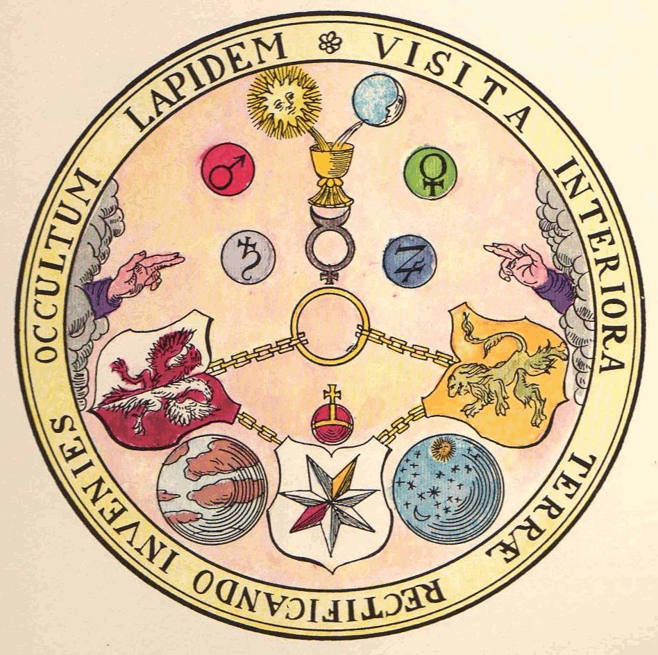 Rosicrucian Rose -- circular diagram of alchemical symbolism with seven planets at top, and Latin "VITRIOL" acronym around the circumference .